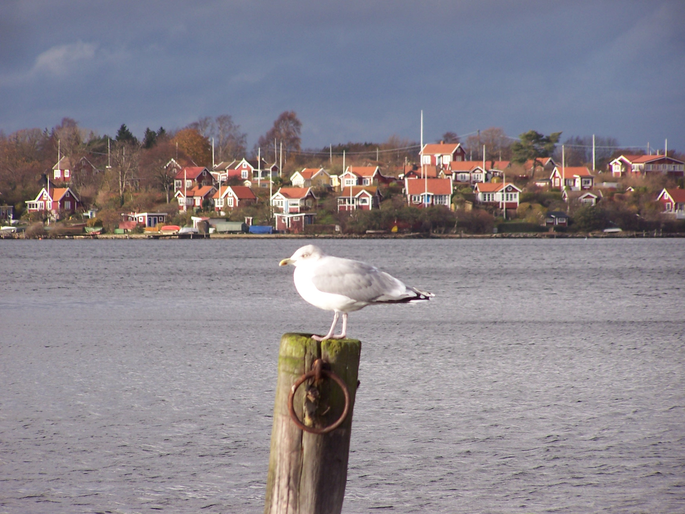 Seagull with Brändaholm in Karlskrona behind.